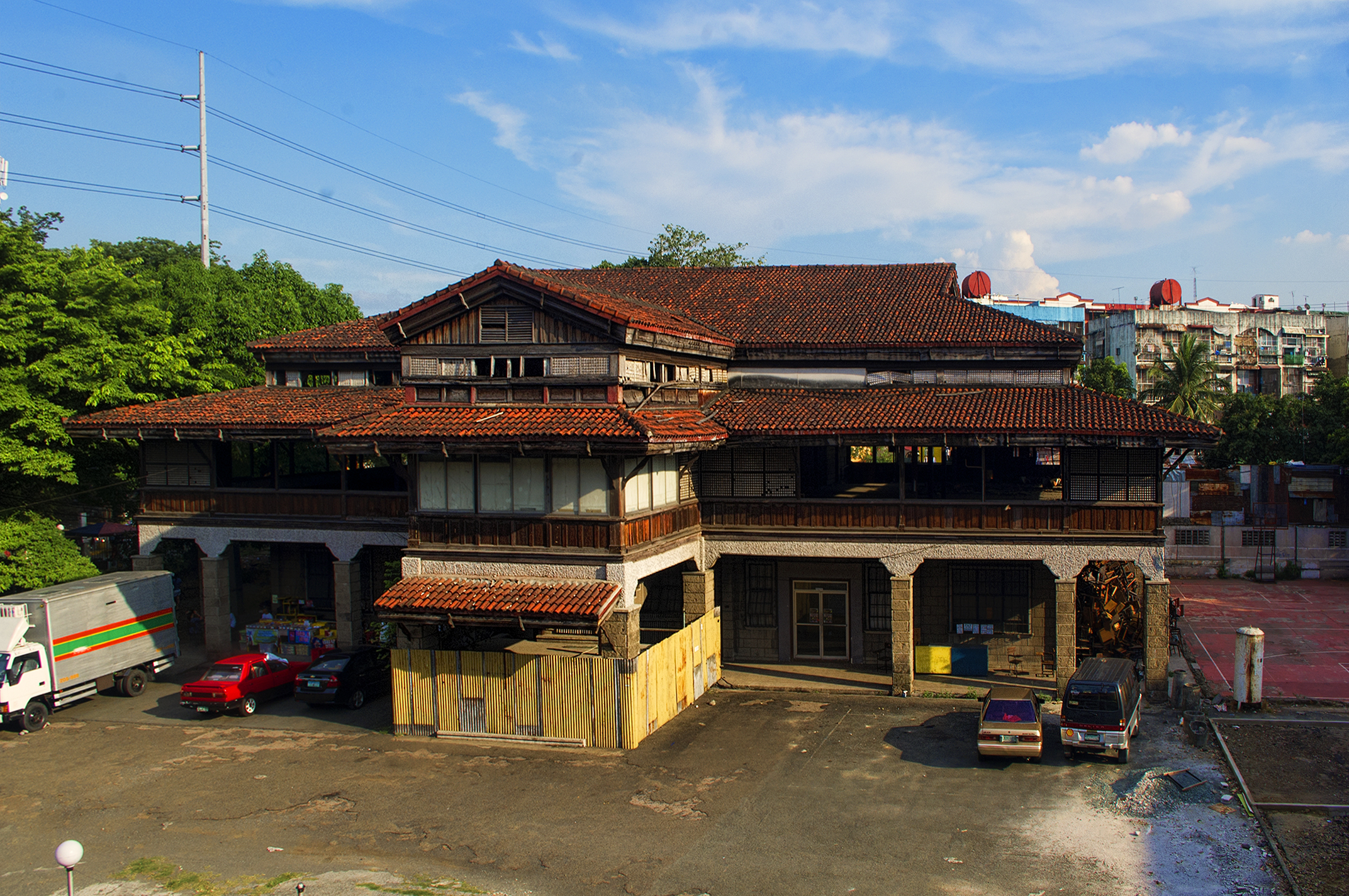 Full shot front